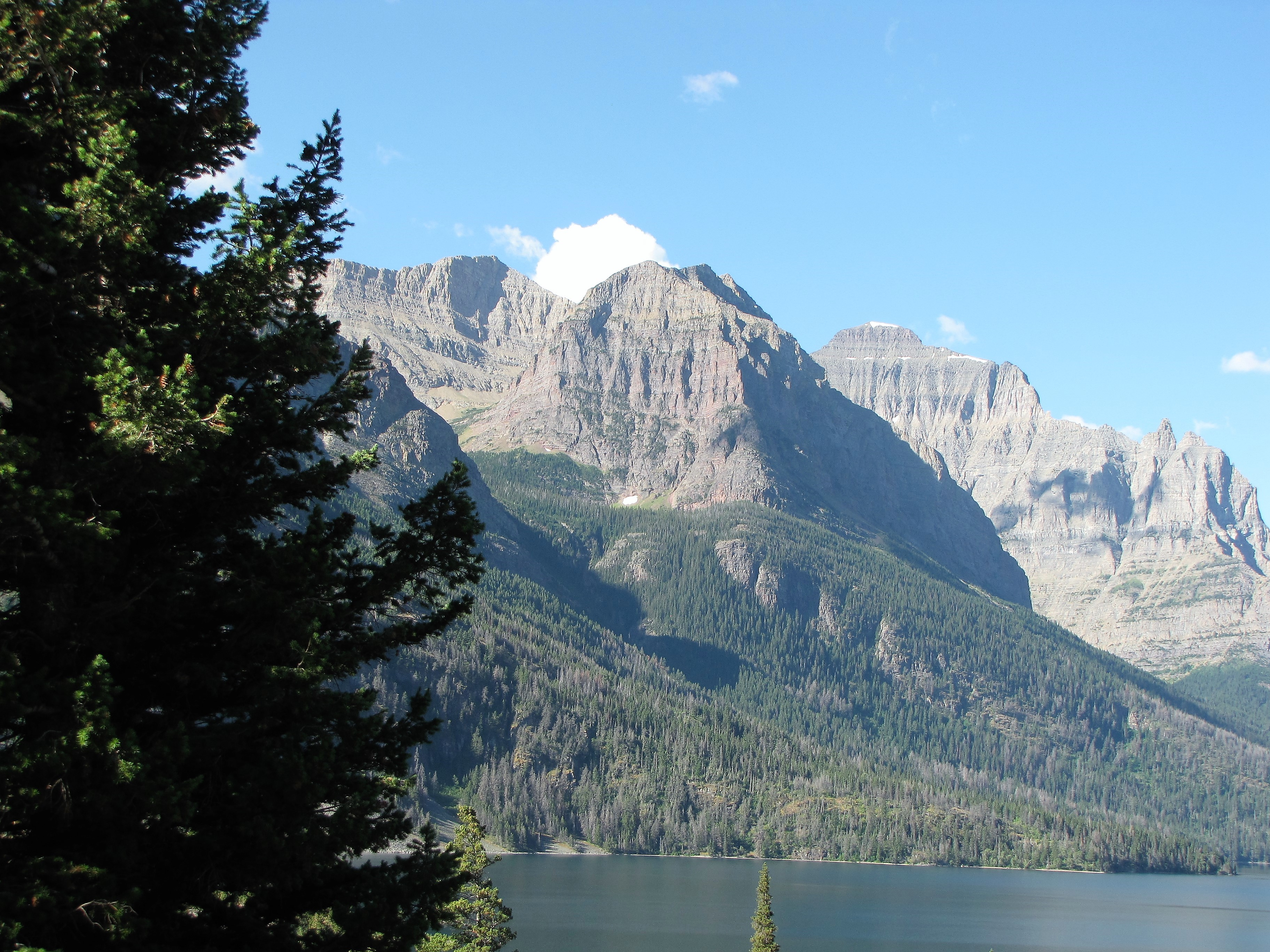 Mahtotopa Mountain in Glacier National Park, Montana